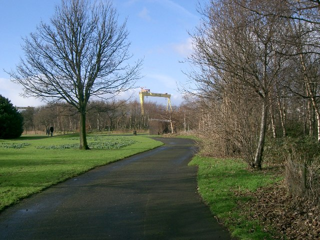 Victoria Park. The idea of creating a public park near the Connswater River in East Belfast was first suggested by the Harbour Commissioner in 1854. However, as the land was very marshy, inaccessible to the public, and generally unsuitable for a public park, progress on the idea was extremely slow. Eventually, after numerous surveyors’ reports and drainage schemes, Victoria Park opened to the public in 1906. Due to its location at the end of Belfast Lough, Victoria Park attracts migrating birds especially waders such as spotted redshanks, ruffs and green sandpipers. Consequently the park is part of the Belfast Lough ASSI (Area of Special Scientific Interest).